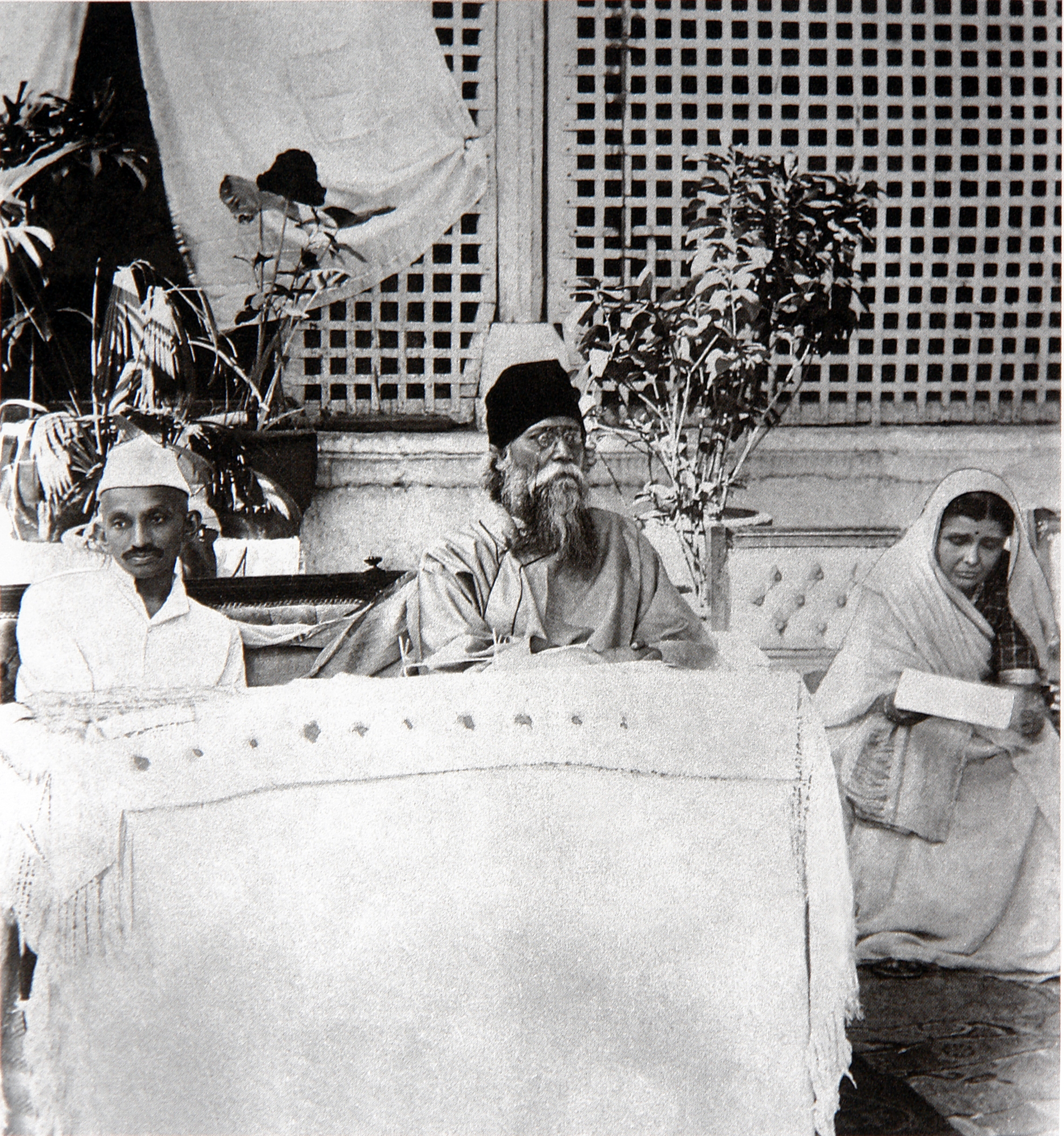 Gandhi and Tagore, Ahmedabad, taken at Mahila Vidyalaya, 1920.